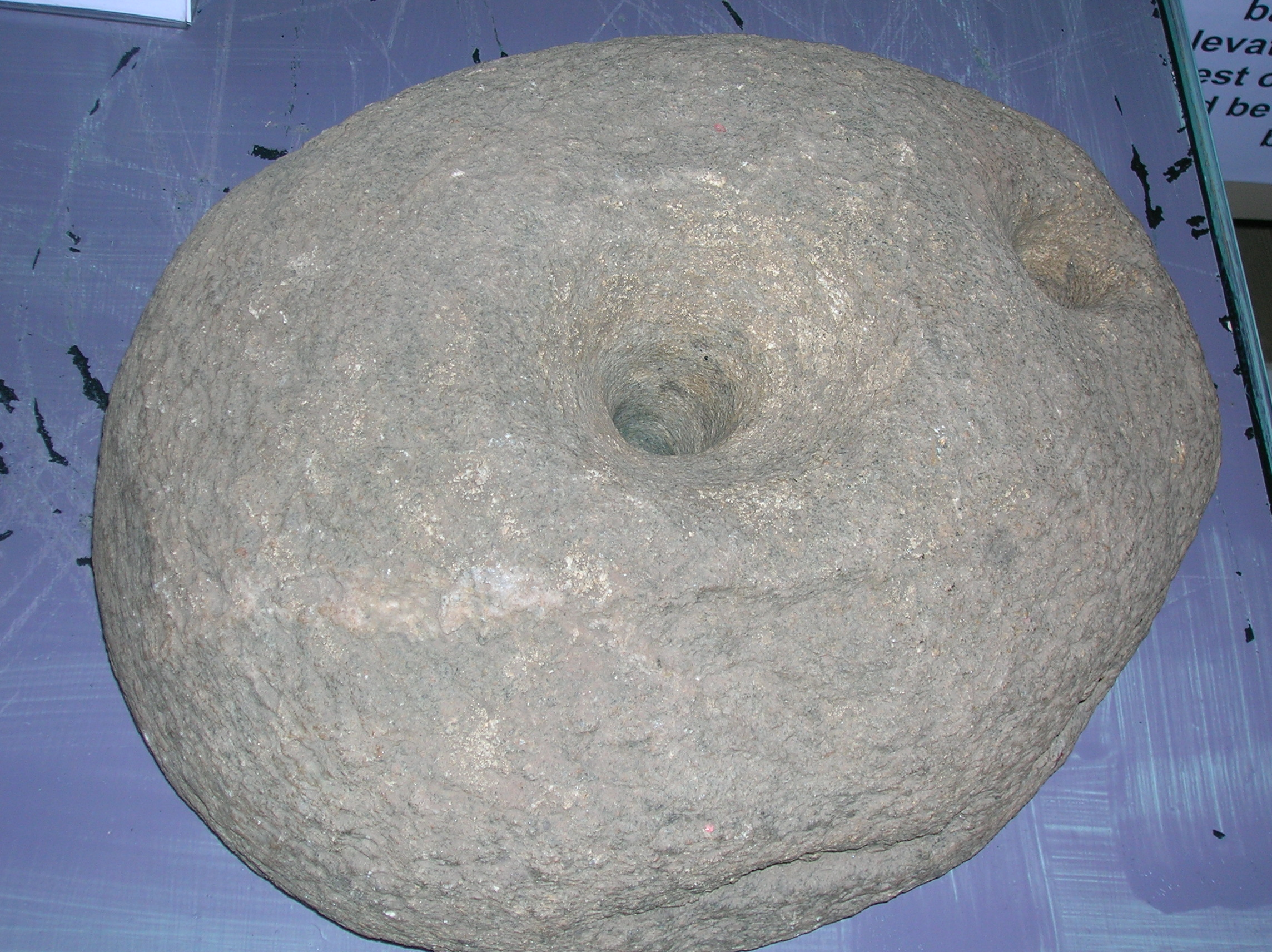 An upper quern stone from Dalgarven Mill. The Ayrshire Museum of Country Life & Costume. North Ayrshire, Scotland